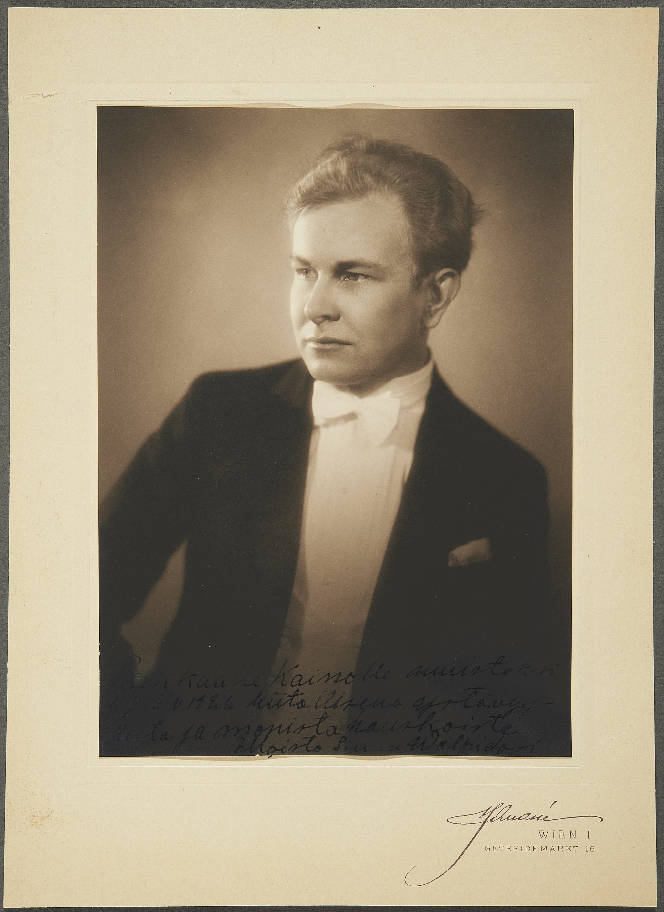 The Finnish singer Walfrid Lehto in Vienna in 1926